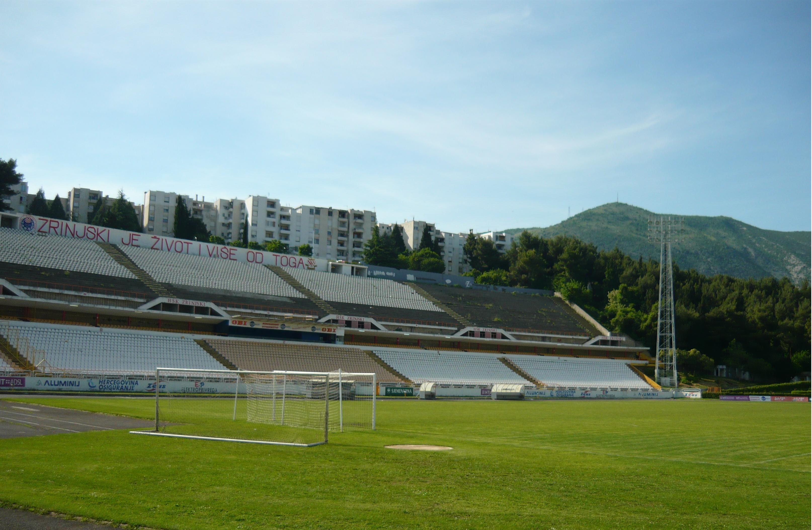 Western stands of Stadium of Croatian sports club Zrinjski (also known as Stadium Bijeli brijeg), Mostar, Bosnia and Herzegovina